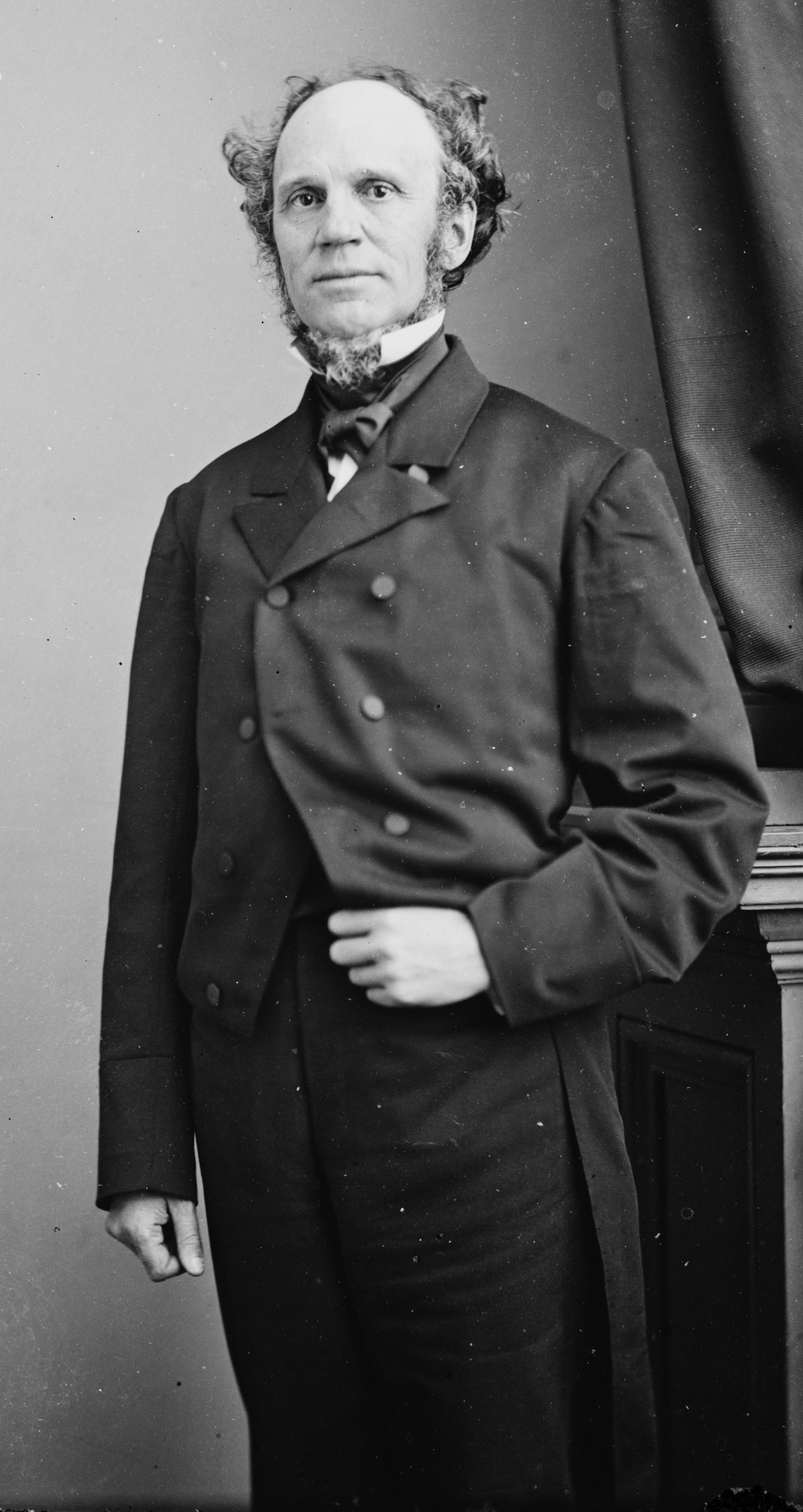 Horatio Seymour. Library of Congress description: "Hon. Horatio Seymour"